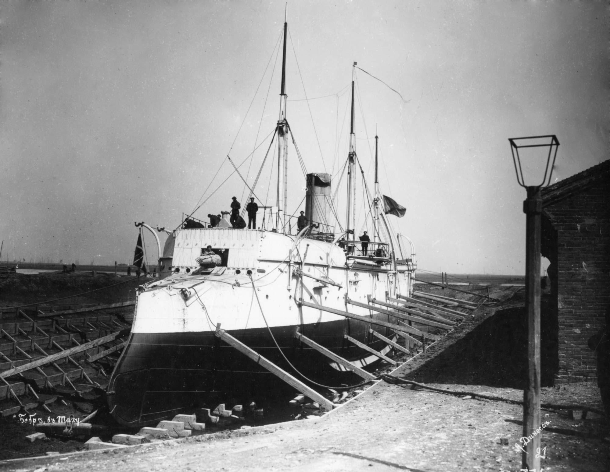 The Imperial Russian seagunboat «Bobr» at Taku.